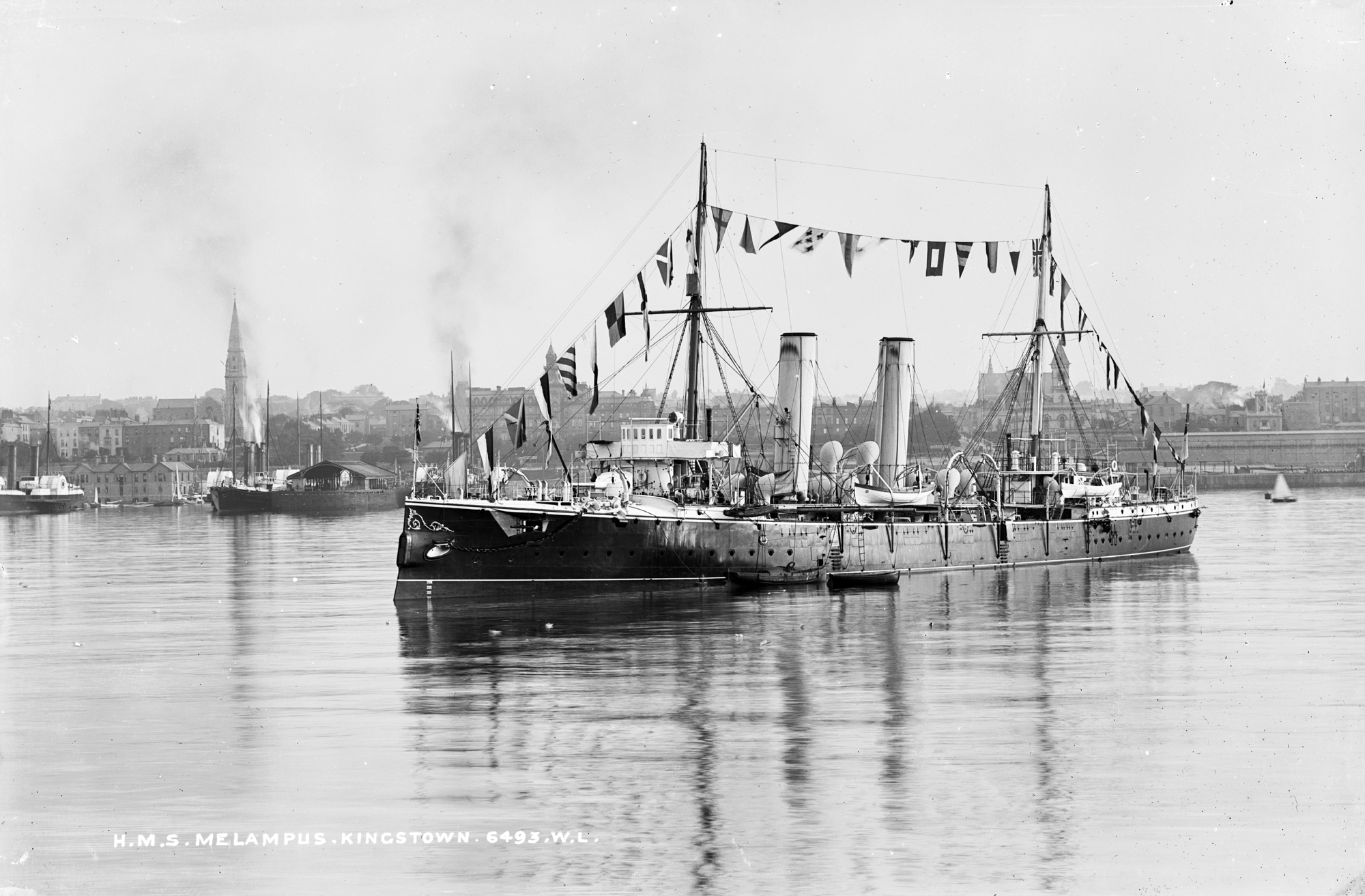 H.M.S. Melampus in the harbour in Kingstown, Co. Dublin - now renamed Dun Laoghaire. NLI Ref.: L_CAB_06493